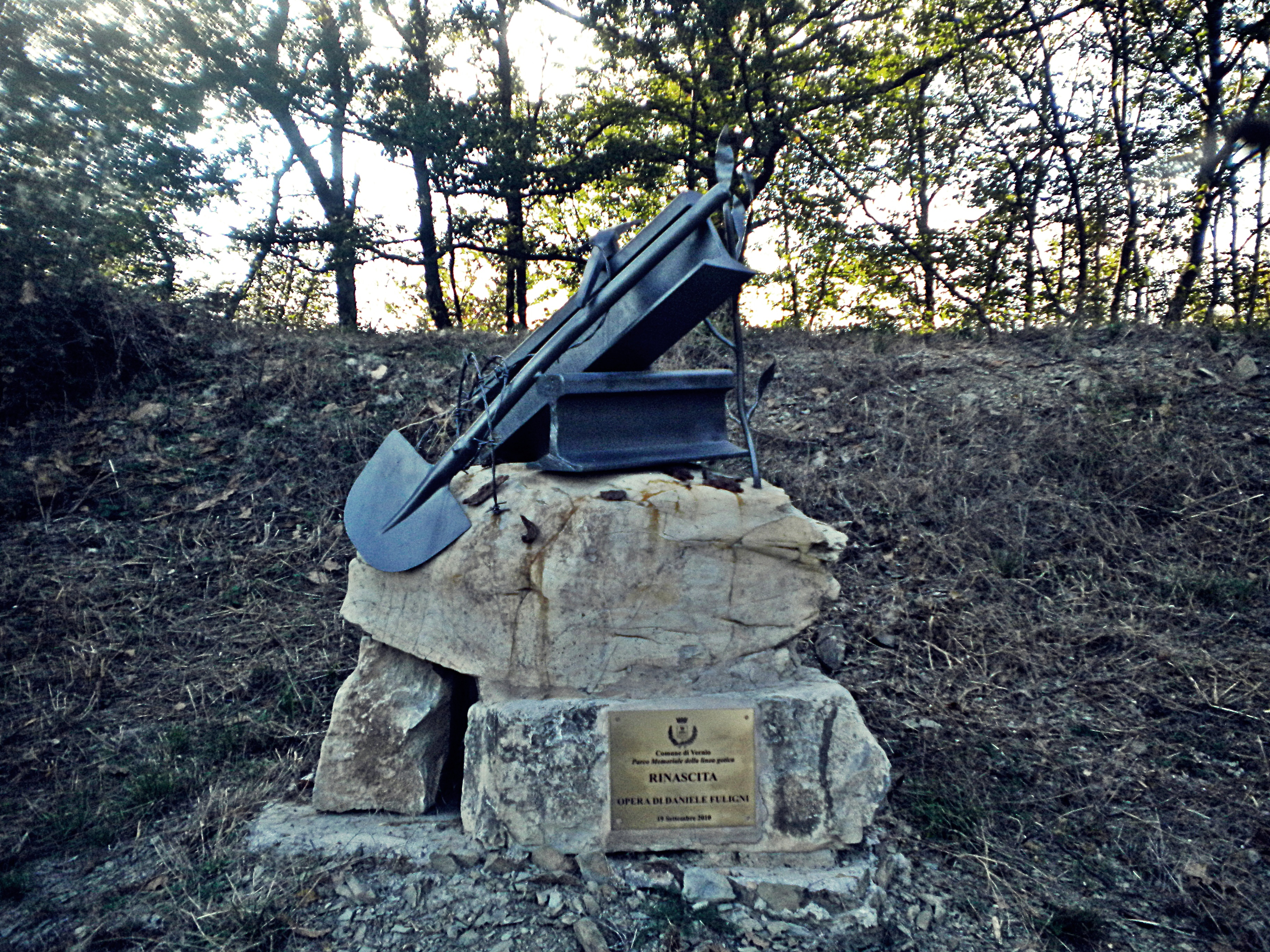 monument